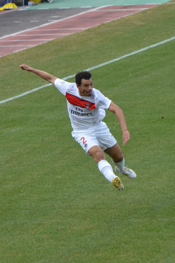 Football player Marcos Ceara during the match Dijon FCO vs Paris SG, on March 11th, 2012 (Dijon, France).